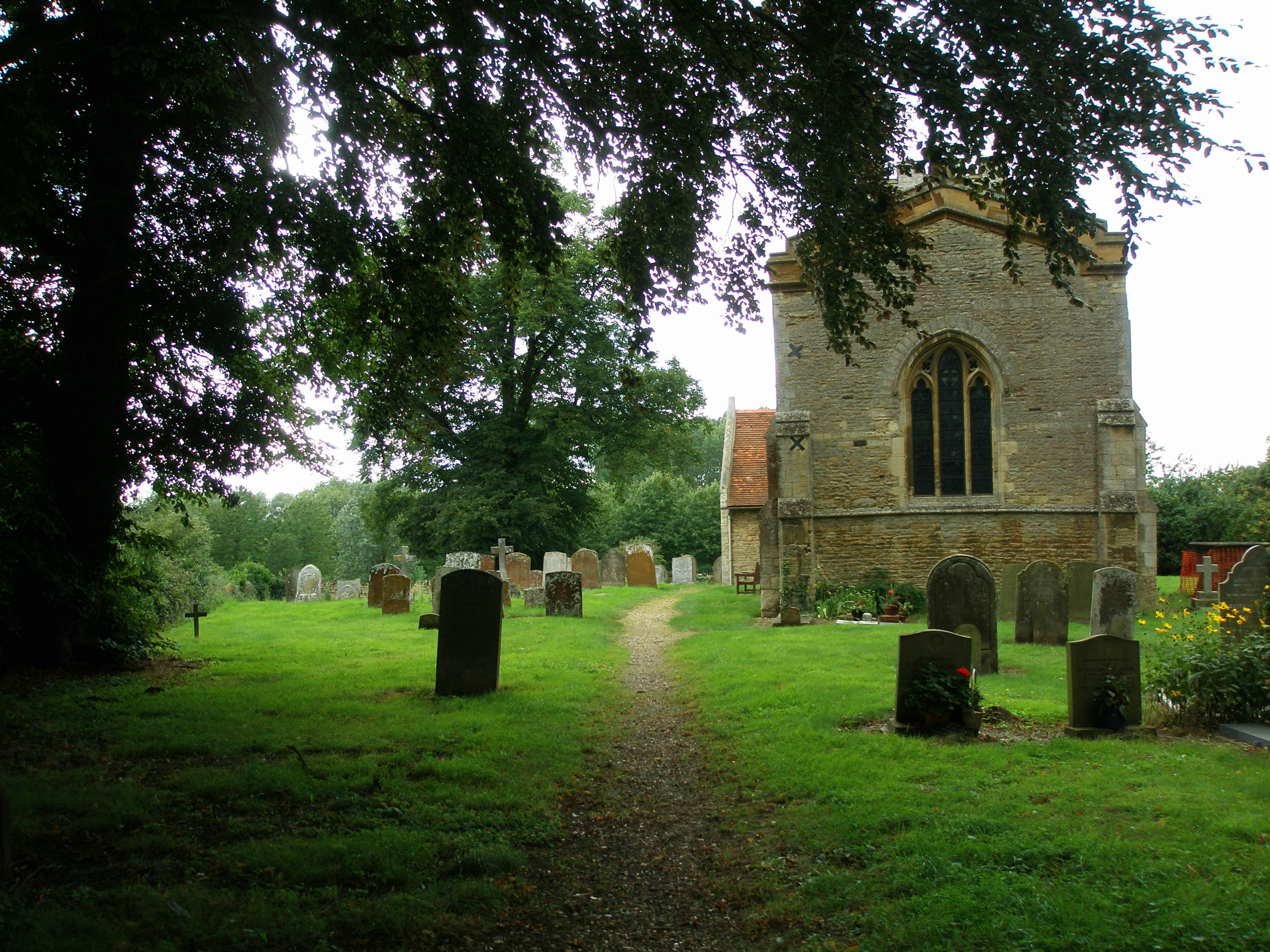 Ancient church of St Lawrence Broughton MK